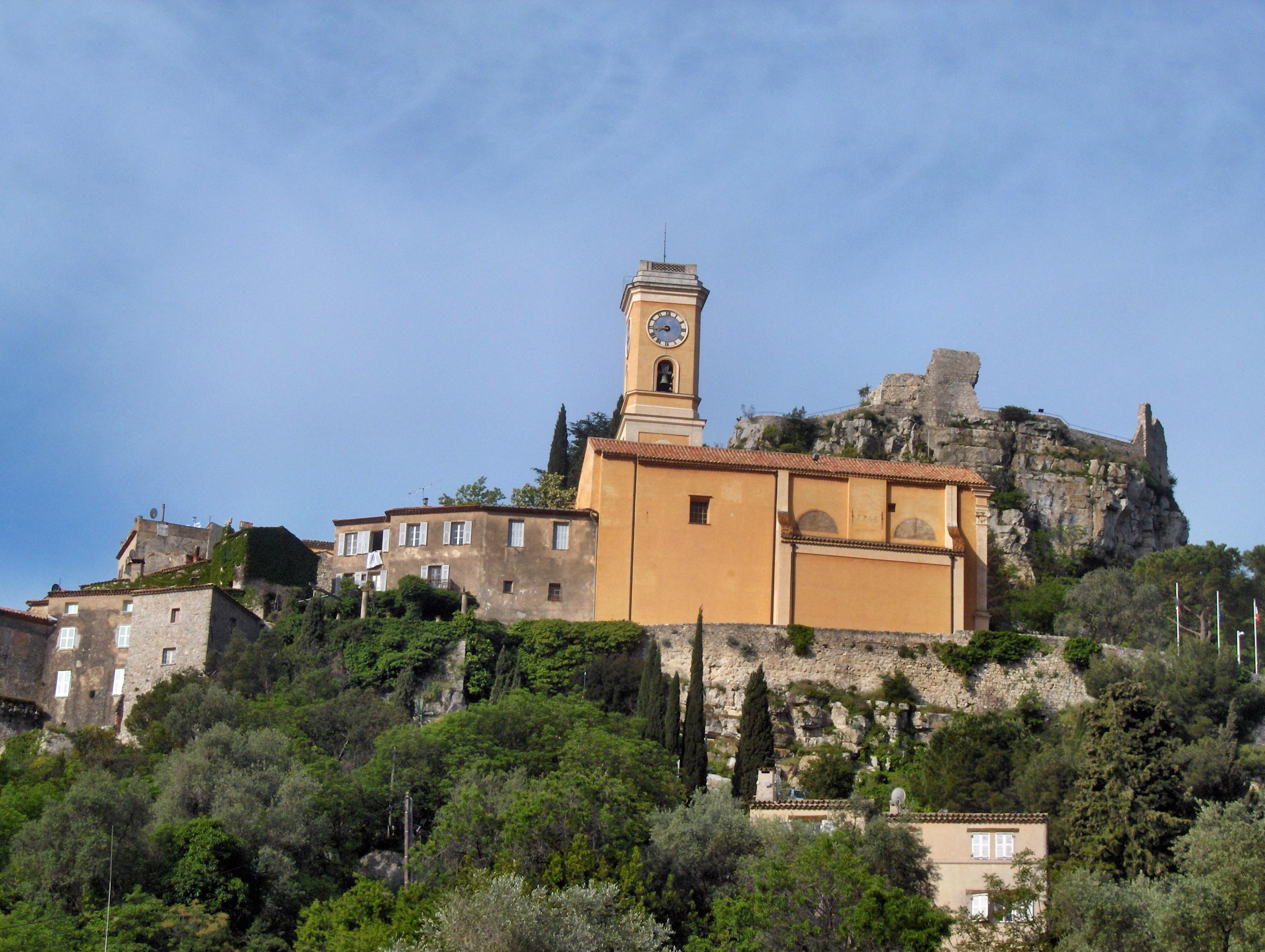 Èze, small village on a hilltop near Nice, France